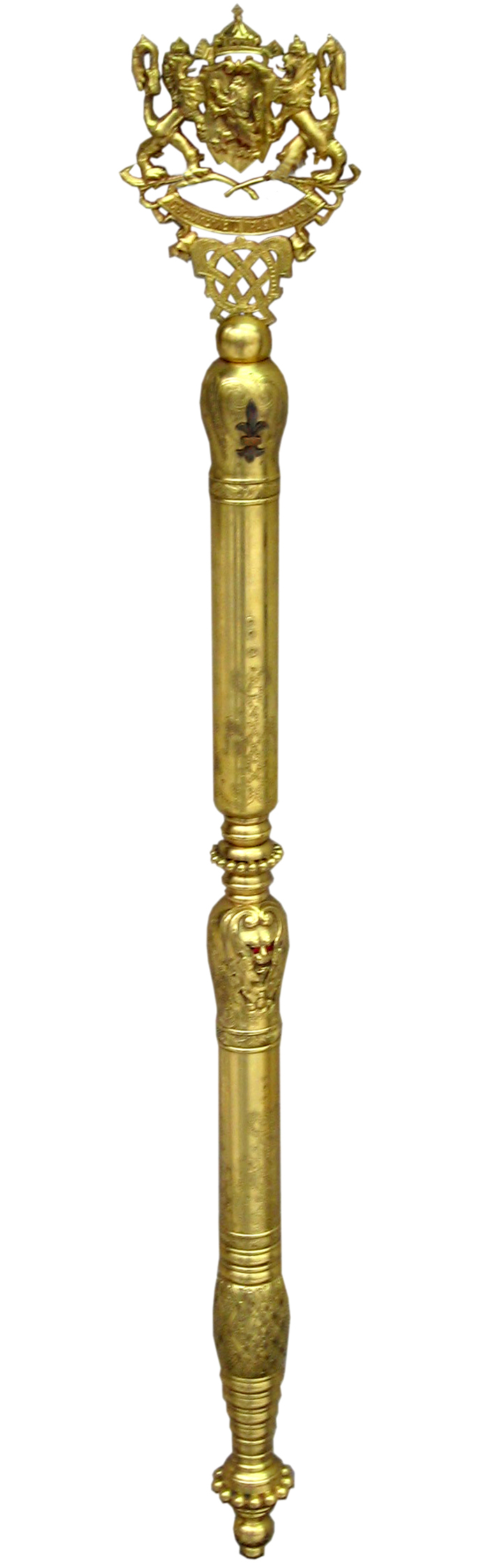 A scepter of Tsar Boris III